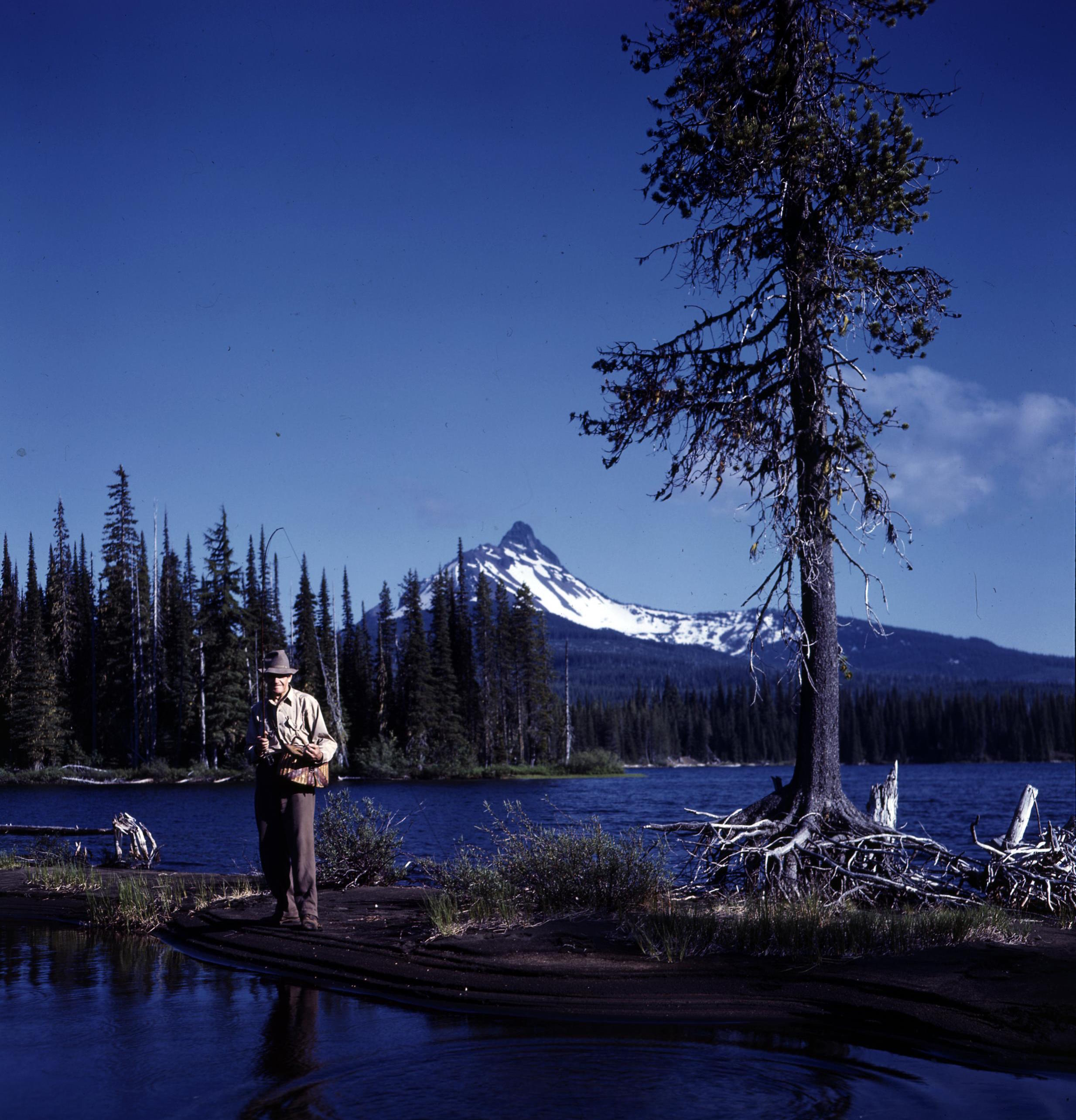 Fisherman at Big Lake in the Oregon Cascades, with Mount Washington in the background. Cropped from original image.